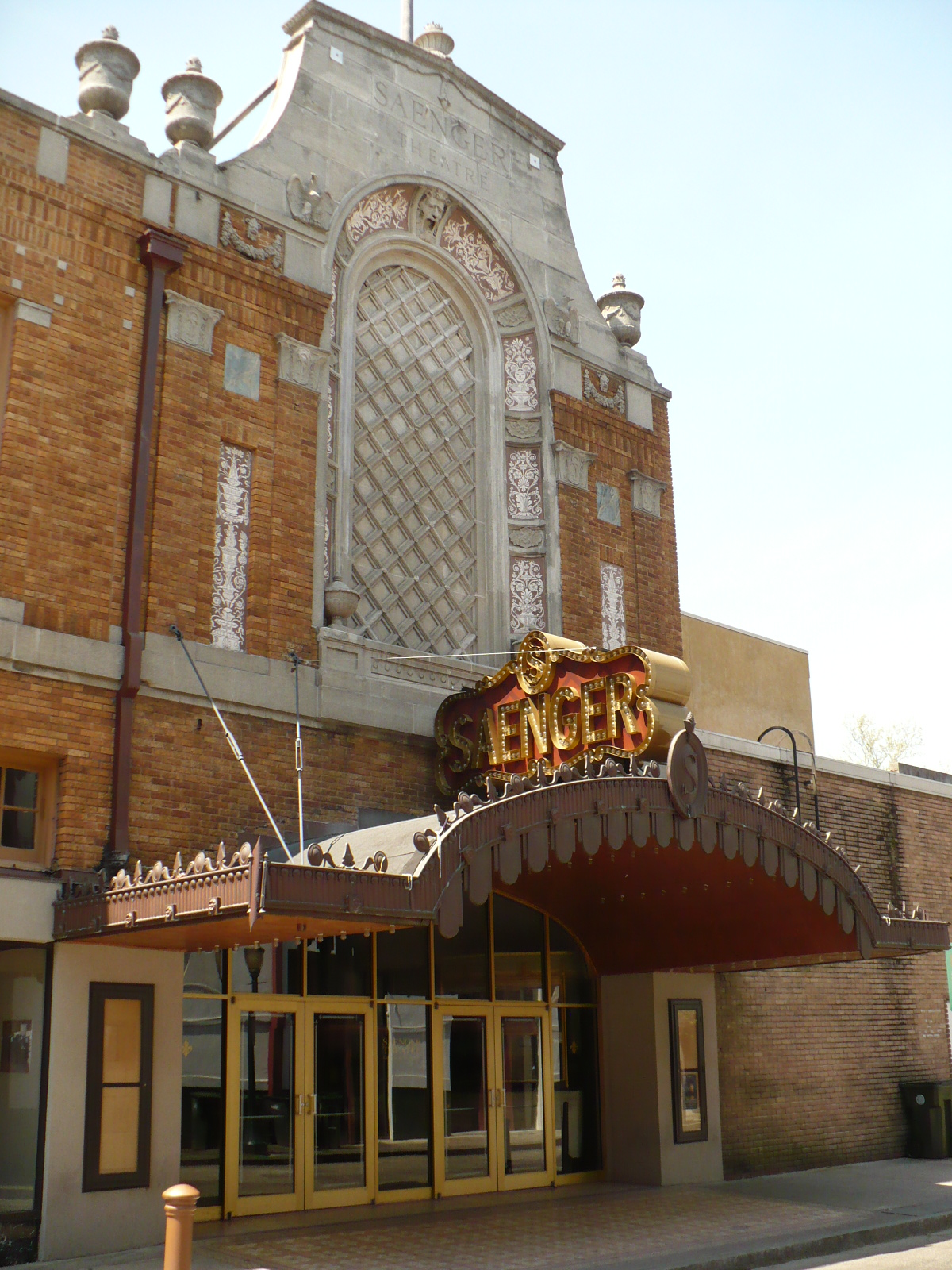 6-8 South Joachim Street (Saenger Theatre) within the Lower Dauphin Street Historic District in Mobile, Alabama. (c. 1926).